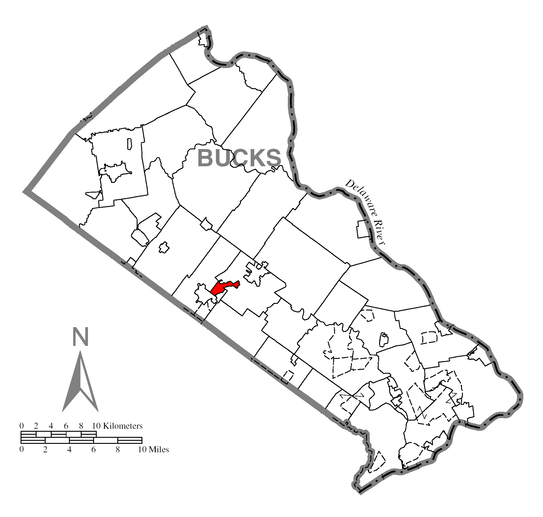 A map of Bucks County showing New Britain, Pennsylvania (alternate) highlighted on the map.